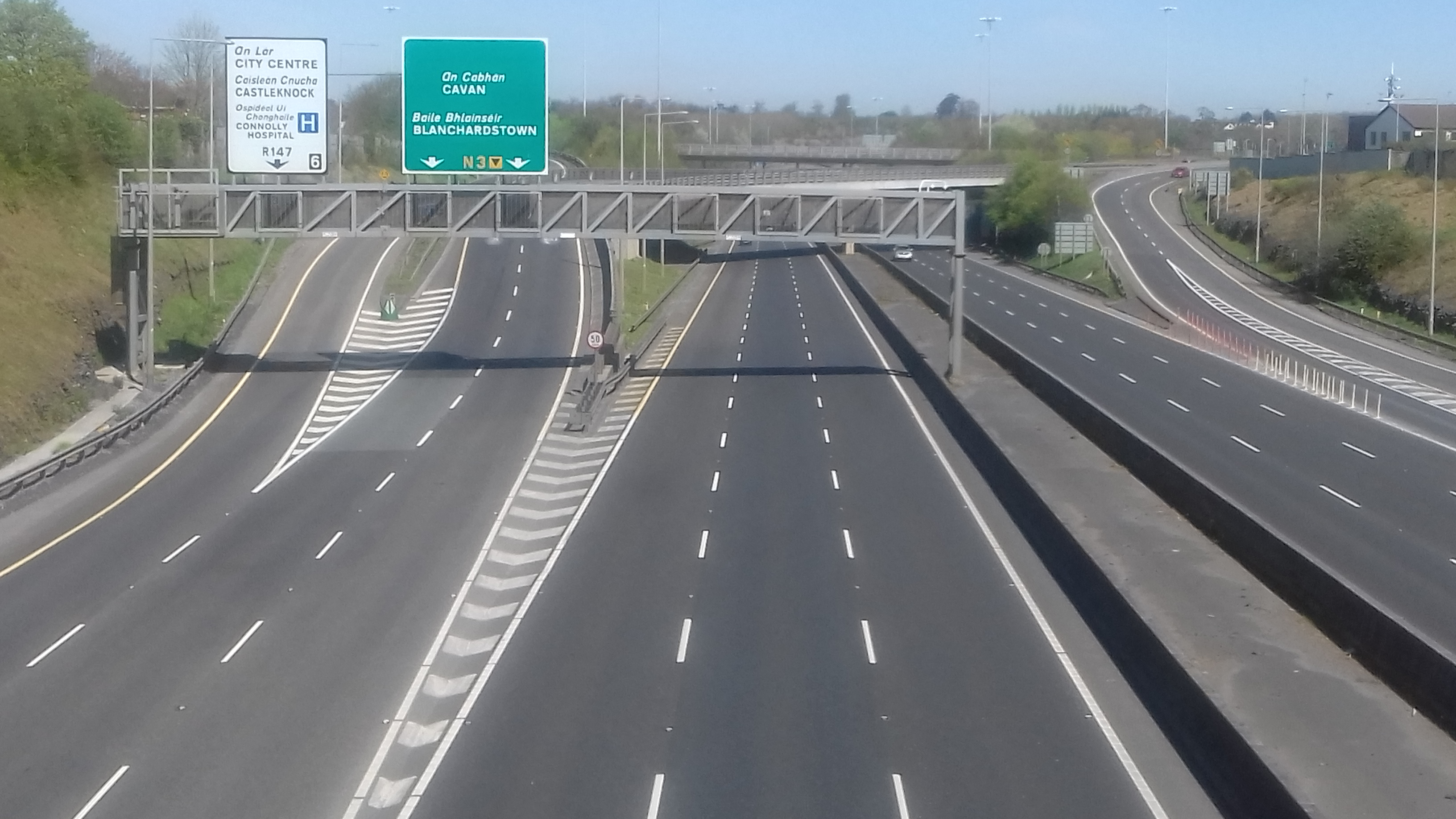 Normally at 2pm the M50 would be full of traffic on both carriageways but due to the government advised lockdown, people have decided to stay at home. The motorway is almost deserted. Next to junction 6 at Castleknock. Looking north to the Castleknock/Blanchardstown exit.